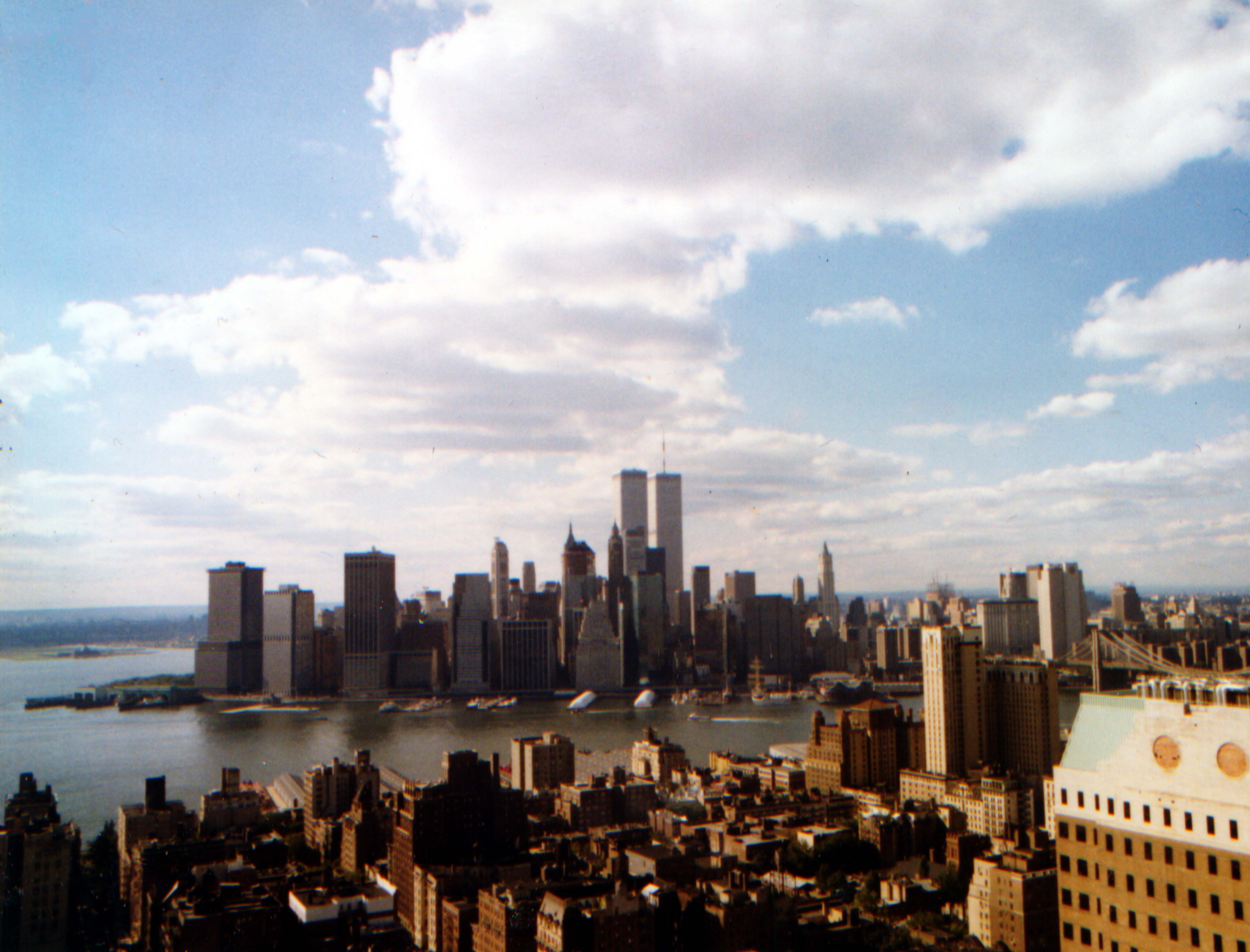 World Trade Center in N.Y.C., U.S.A. photographed by Stefan Richter summer of 1988